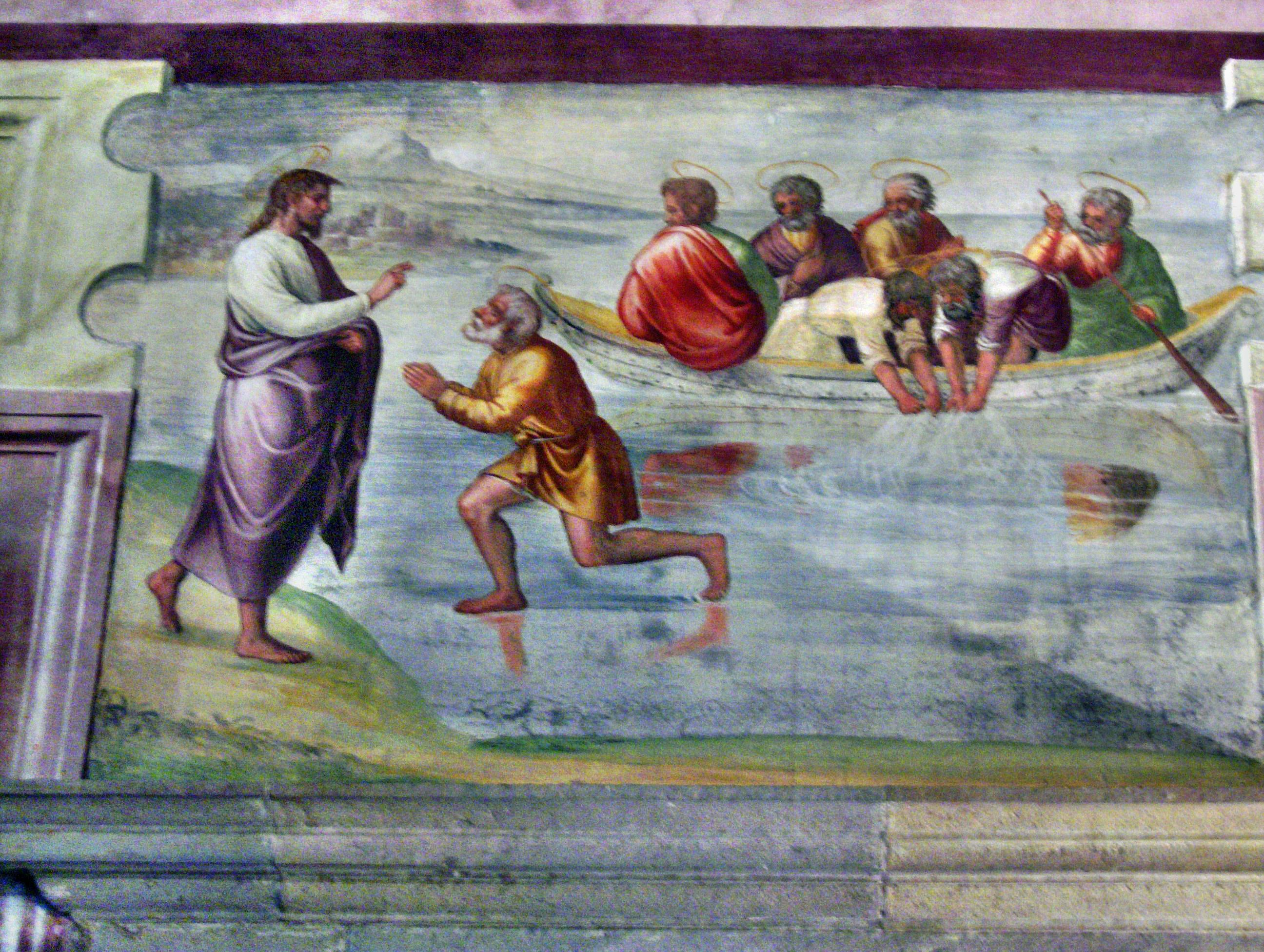 "Miraculous Draught of Fish", fresco on the ceiling; cathedral of Spoleto, Italy